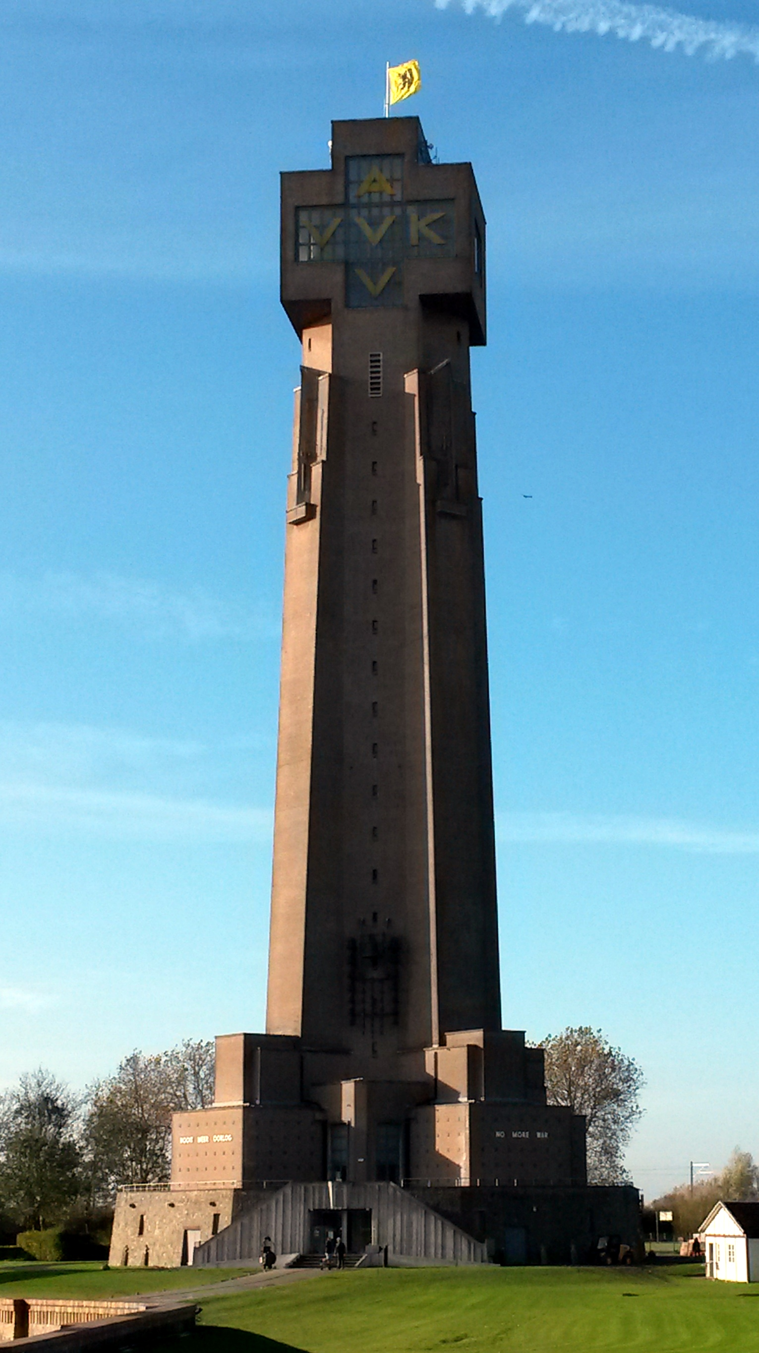 2014-11-08: IJzertoren in Diksmuide